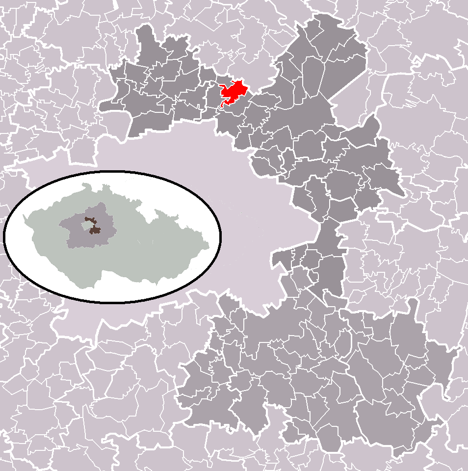 Location of Mratín municipality within Prague-East District and administrative area of Brandýs nad Labem-Stará Boleslav as a Municipality with Extended Competence.